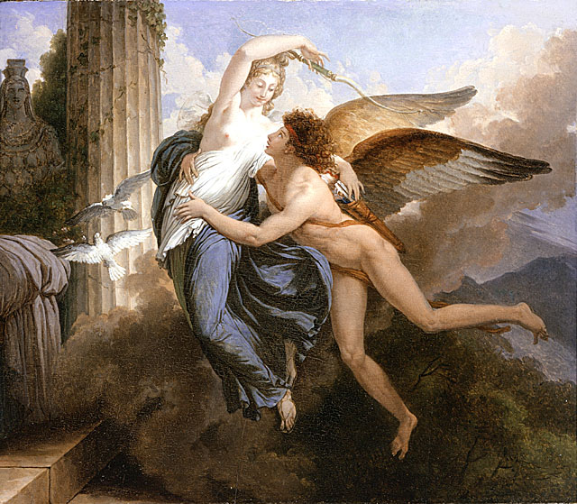 The Reunion of Cupid and Psyche Jean-Pierre Saint-Ours (1752–1809) DescriptionGenevan painter, graphic artist and drawerDate of birth/death4 April 17526 April 1809Location of birth/deathRepublic of GenevaGenevaWork locationGeneva, Paris, RomeAuthority control : Q3169737 VIAF: 17527588 ISNI: 0000 0001 2122 6605 ULAN: 500014563 LCCN: nr96001313 GND: 119258897 WorldCat